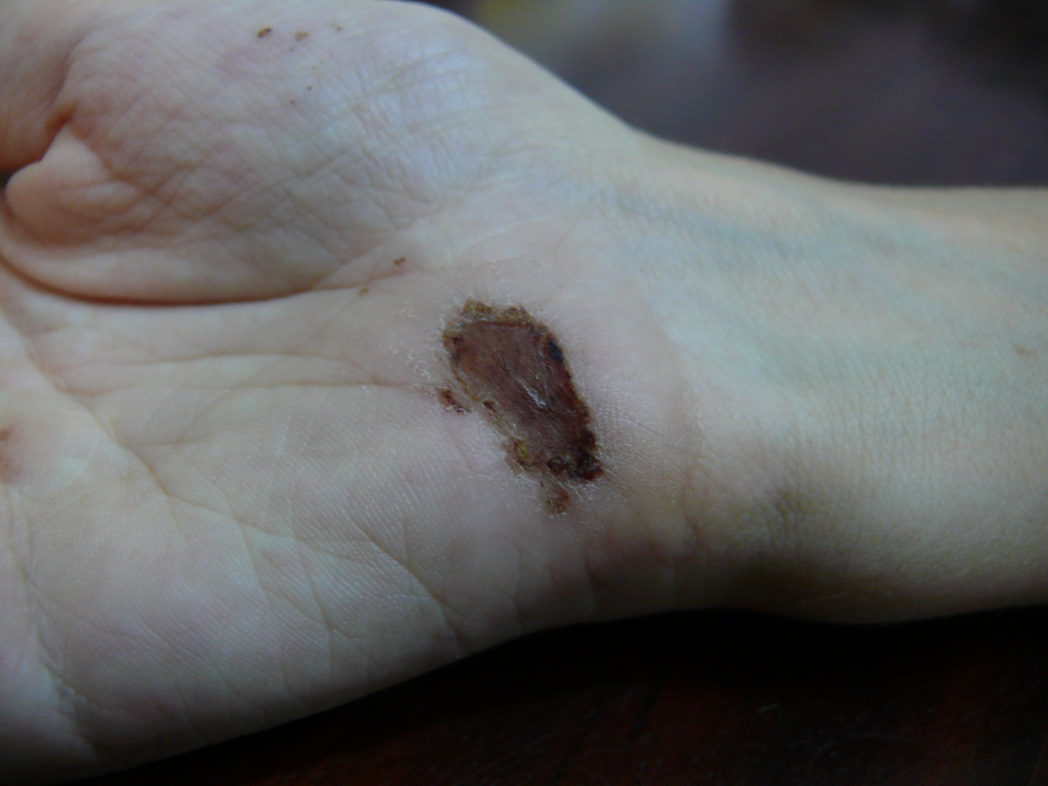 Wound on palm of hand four days after falling off a bike onto concrete. Previous photos: Day 1: Image:Wound on palm of hand.jpg Day 2: Image:Wound on palm of hand - day 2.jpg Day 3: Image:Wound on palm of hand - day 3.jpg Day 4: Image:Wound on palm of hand - day 4.jpg Day 5: Image:Wound on palm of hand - day 5.jpg Day 6: Image:Wound on palm of hand - day 6.jpg Following photos: Day 8: Image:Wound on palm of hand - day 8.jpg Day 9: Image:Wound on palm of hand - day 9.jpg Day 10: Image:Wound on palm of hand - day 10.jpg Day 11: Image:Wound on palm of hand - day 11.jpg Day 12: Image:Wound on palm of hand - day 12.jpg Day 13: Image:Wound on palm of hand - day 13.jpg Day 14: Image:Wound on palm of hand - day 14.jpg Day 15: Image:Wound on palm of hand - day 15.jpg Day 16: Image:Wound on palm of hand - day 16.jpg Day 17: Image:Wound on palm of hand - day 17.jpg Day 18: Image:Wound on palm of hand - day 18.jpg Day 19: Image:Wound on palm of hand - day 19.jpg Day 20: Image:Wound on palm of hand - day 20.jpg